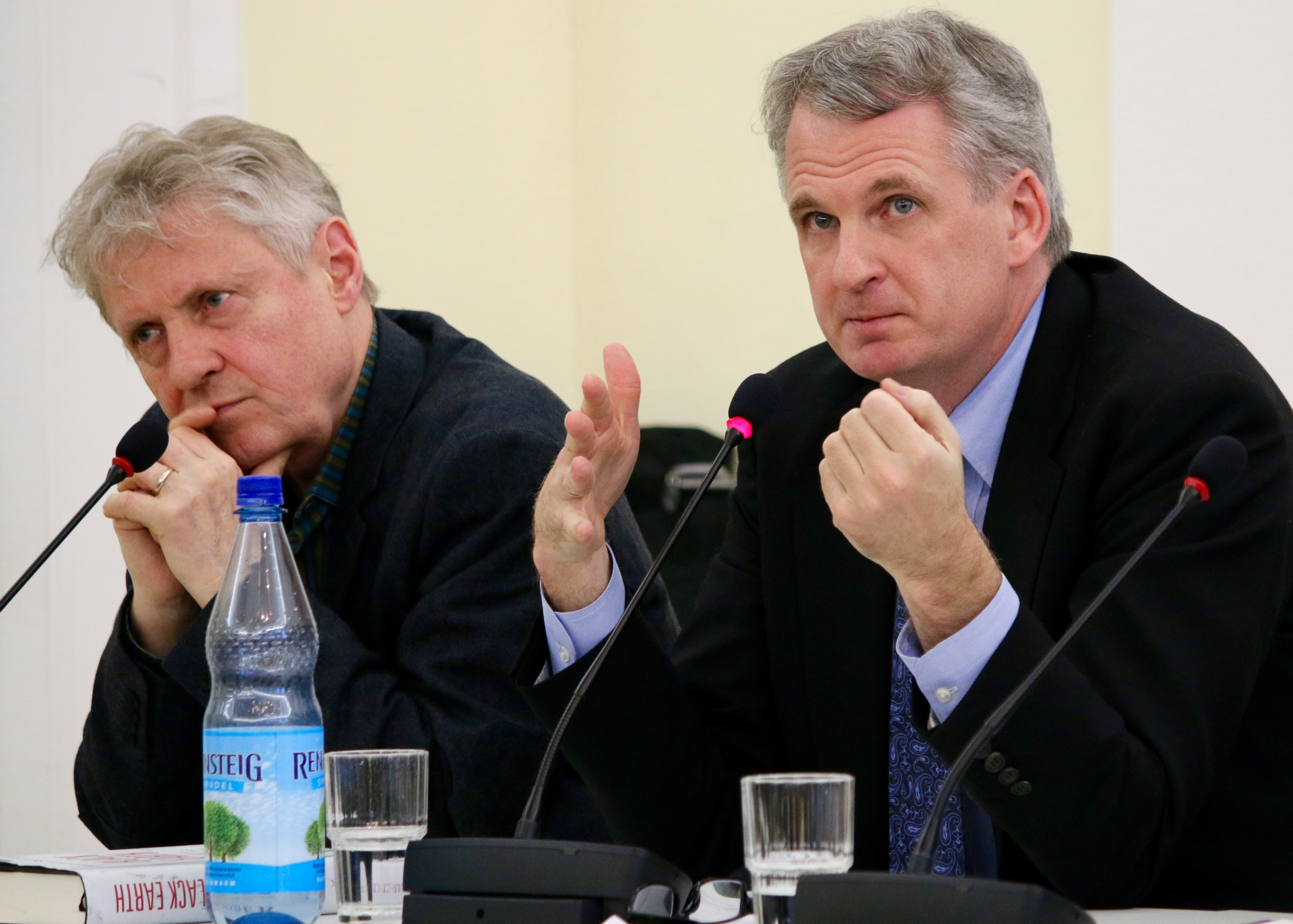 German Historian Gerd Koenen (left) with Timothy Snyder (right) on a panel in March 2016